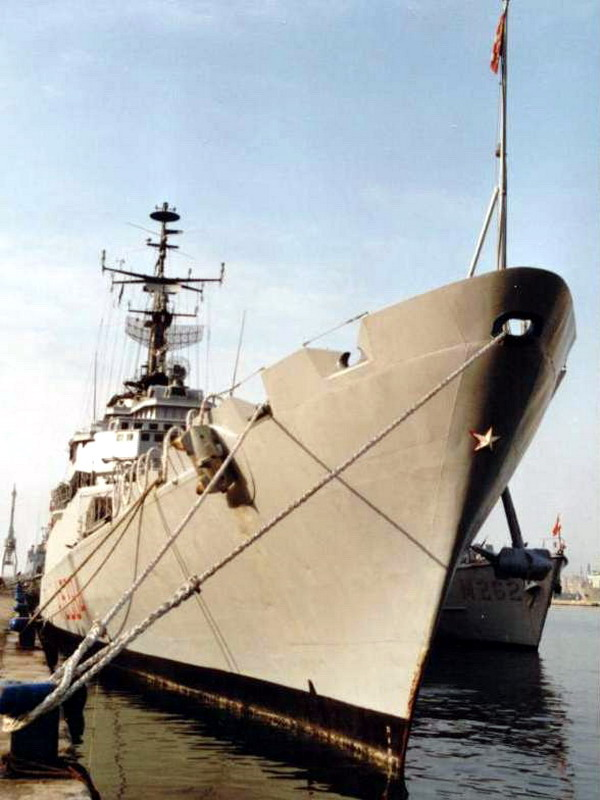 Italian Navy frigate Alpino (F 581), originally named “Circe”, Alpino class frigates built by Shipyards of the Tyrrenian at Riva Trigoso. Launched on June 6, 1967, completed and entered in service on January 14, 1968. In 1996 was modified as minesweeper support ship (A 5384), was scrapped on March 31, 2007.